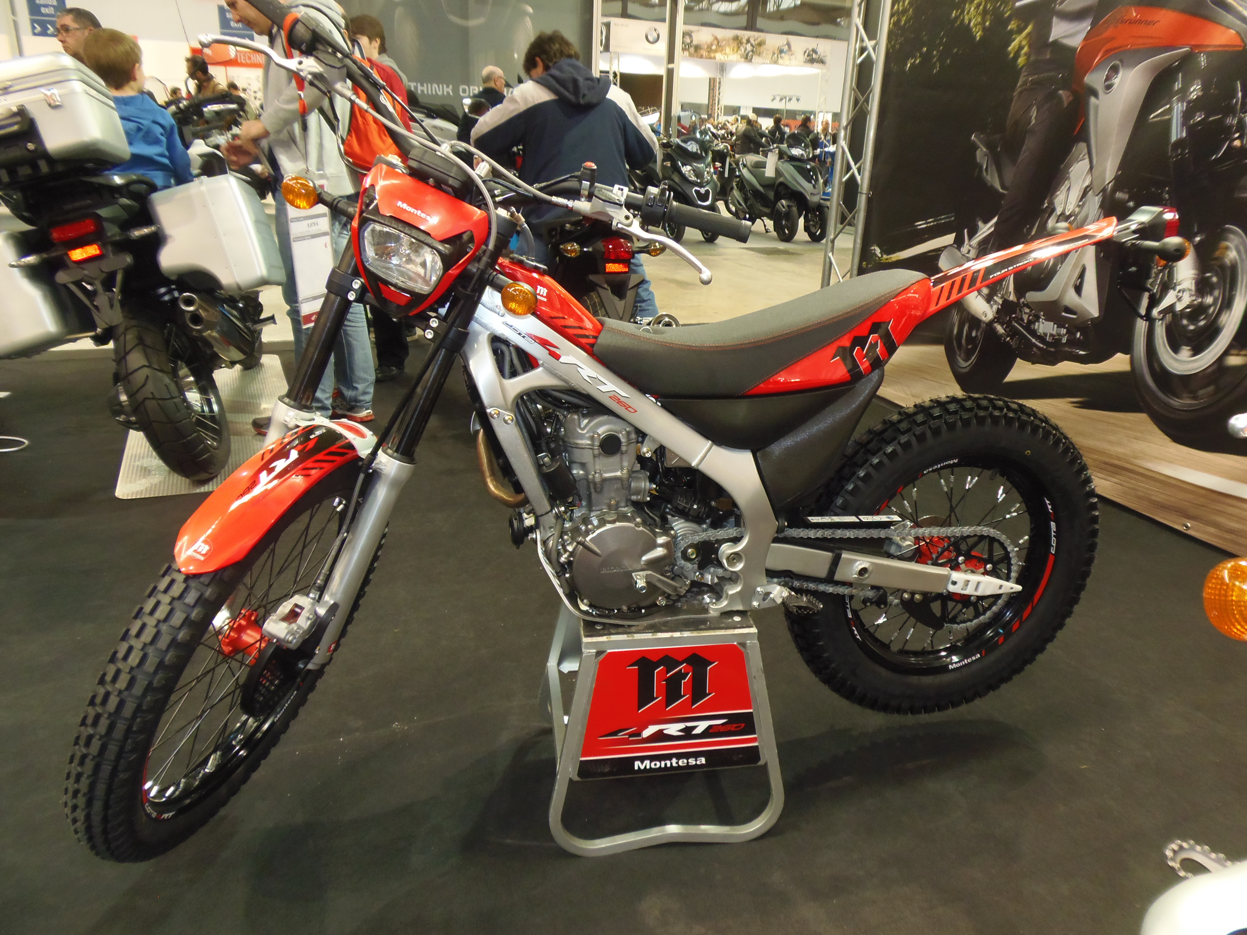 Montesa Cota 4RT 260, 2015